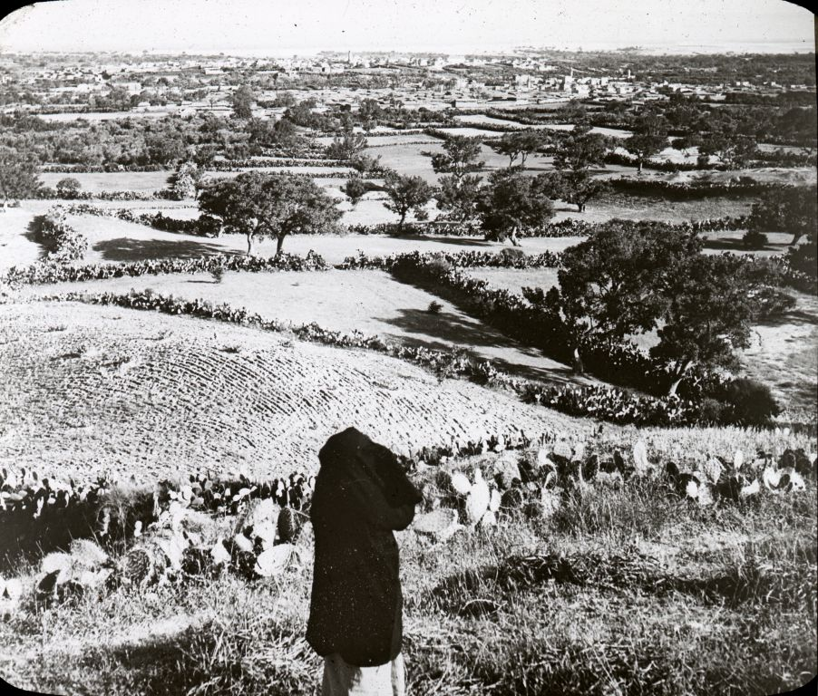 Image Title: Gaza from the Hills Muntar Image Description from historic lecture booklet: "This picture is taken two miles southwest of Gaza on the Hill Muntar. Gaza was the southern-most and strongest of five Royal Cities of Philistines. It has been made famous by the exploits of Samson. Tradition points out a place on the southwest side of town toward the left of the picture as the place where stood the gates of the Philistine city which Samson carried off (Judges 13). It is claimed by some that this is the hill whither Samson carried the gates. Gaza is about 100 feet high and stands in the midst of orchards. There is an abundance of figs, dates and olives. The soil is irrigated by well water and yields abundantly. Gaza is very closely connected with Old Testament history, being mentioned in almost every book. It was a town even before the call of Abraham, and now is the largest city close to the seacoast in Palestine. In the conquest of Joshua the territory of Gaza is mentioned as one which he was not able to subdue (Josh. 15:47) But is apparently continued through the times of Samuel, Saul, and David to be a Philistine city." Original Format: Lantern slides Original Collection: Visual Instruction Department Lantern Slides Item Number: P217:set 010 001 Restrictions: Permission to use must be obtained from the OSU Archives. Click here to view The Best of the Archives. Click here to view Oregon State University's other digital collections. We're happy for you to share this digital image within the spirit of The Commons; however, certain restrictions on high quality reproductions of the original physical version may apply. To read more about what “no known restrictions” means, please visit the OSU Archives website.